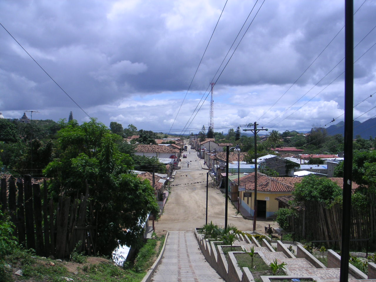 Ocotal, Nicaragua. Photo: Soman